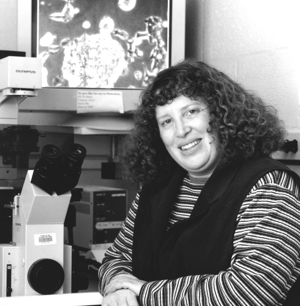 Title Aladjem, Mirit Description Head, DNA Replication Group, Laboratory of Molecular Pharmacology, Center for Cancer Research, National Cancer Institute. Topics/Categories National Cancer Institute, People Type B&W, Photo Source National Cancer Institute